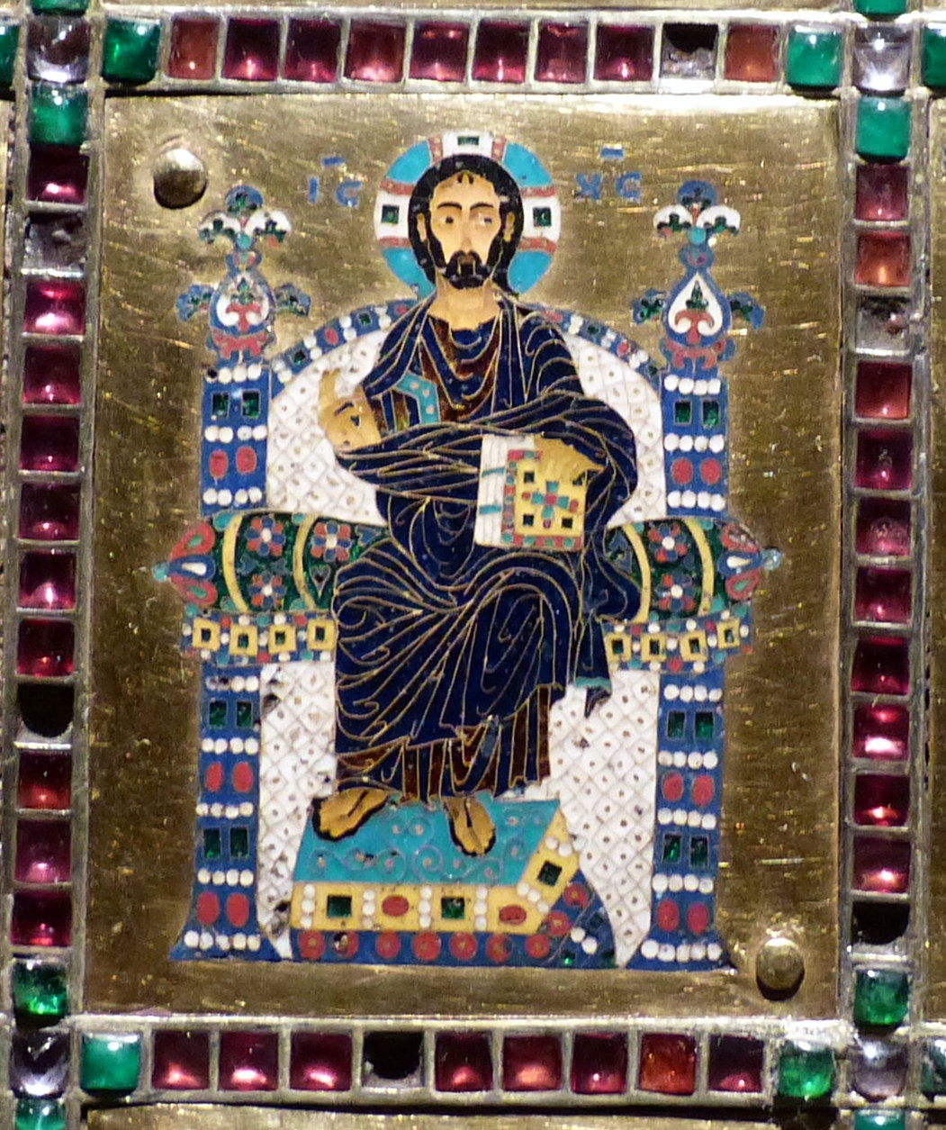 "Pantokrator". Limburger Staurothek; reliquiary of the True Cross, made in Constantinople,ca 960. � Cloisonné enamel, silver, silver–gilt, gold, pearls, gemstones (Cabochon)